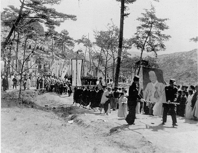 Death of South Korean President Lee Si-young